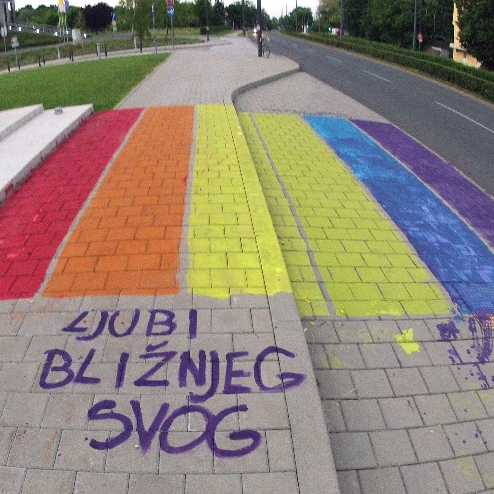 A rainbow drawn on the occasion of the International Day Against Homophobia 2015 on a sidewalk in front of the Croatian Bishops' Conference building in Zagreb, with the words "Ljubi bližnjeg svog" ('Love thy neighbour') and a verse "Ima jedna duga (cesta)" (lit. 'There's one long (road)', 'There's a rainbow') on both sides of the rainbow.